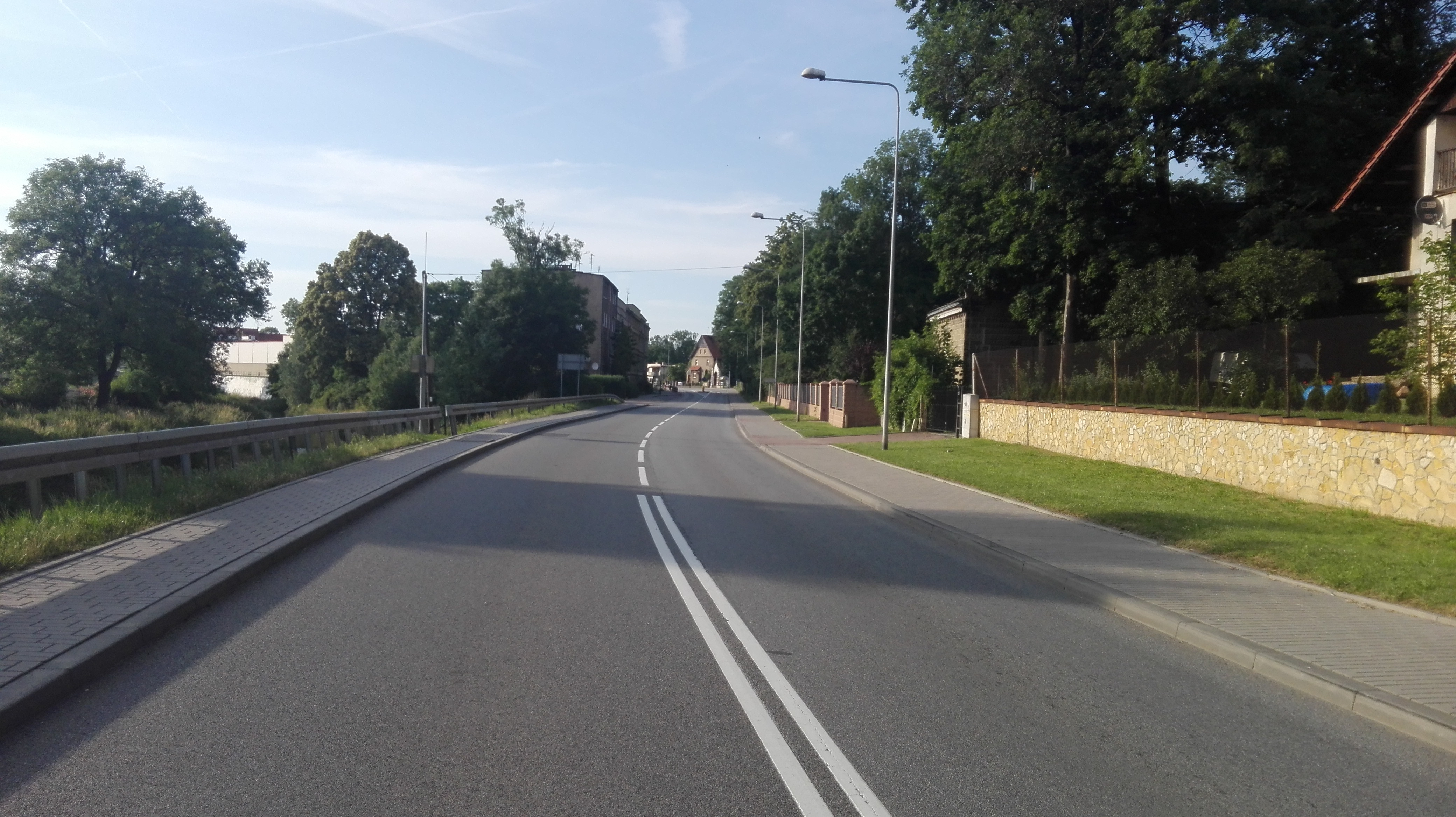 Wiejska Street in Prudnik